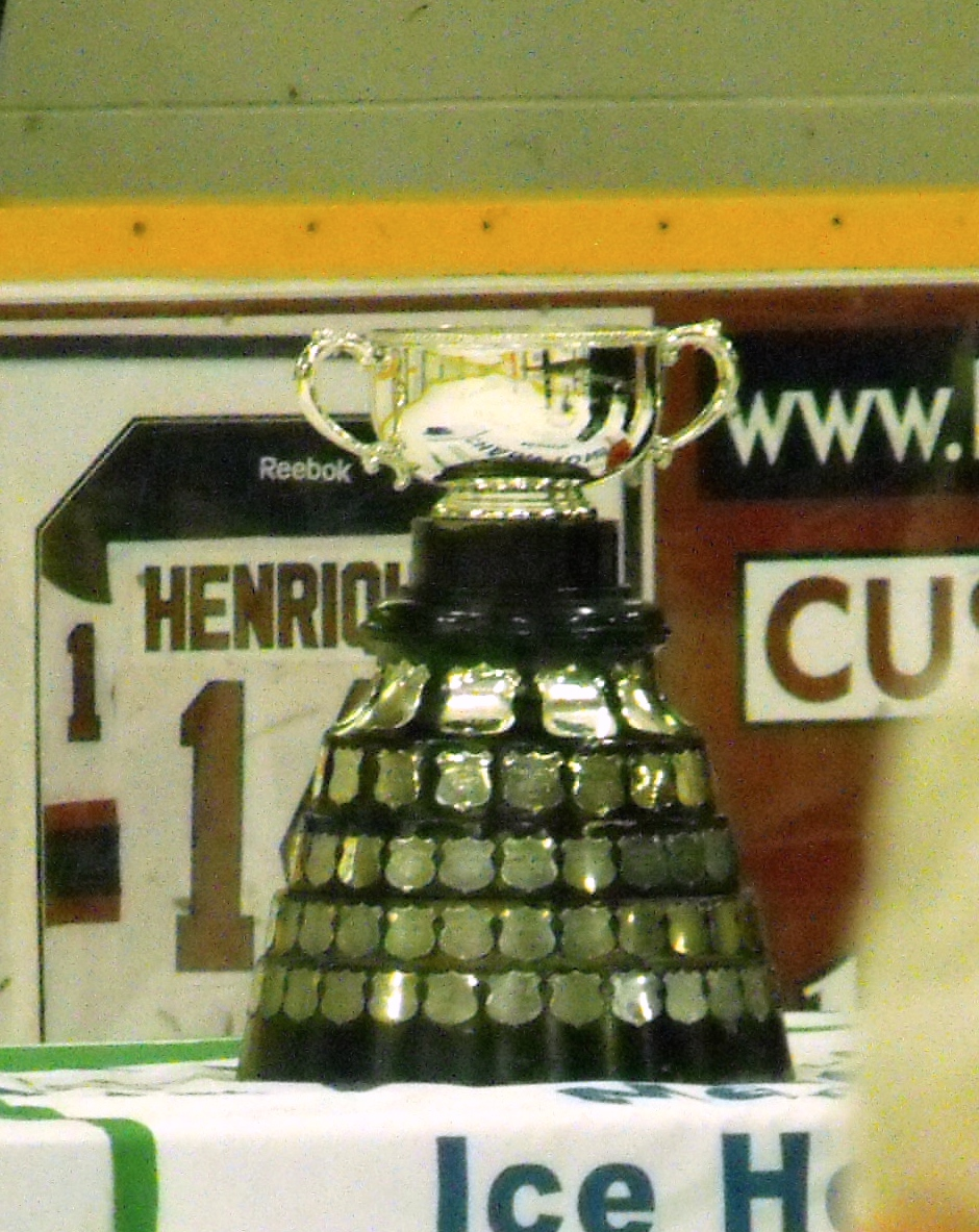 Photo taken of Queen's Cup, emblematic of the championship of Ontario University hockey. March 15, 2014 @ Windsor, ON.